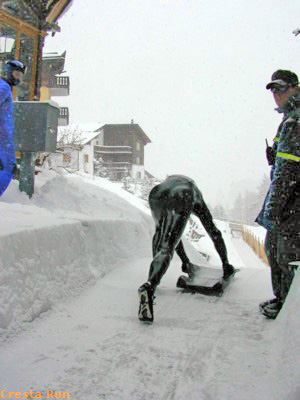 Author JN Prade